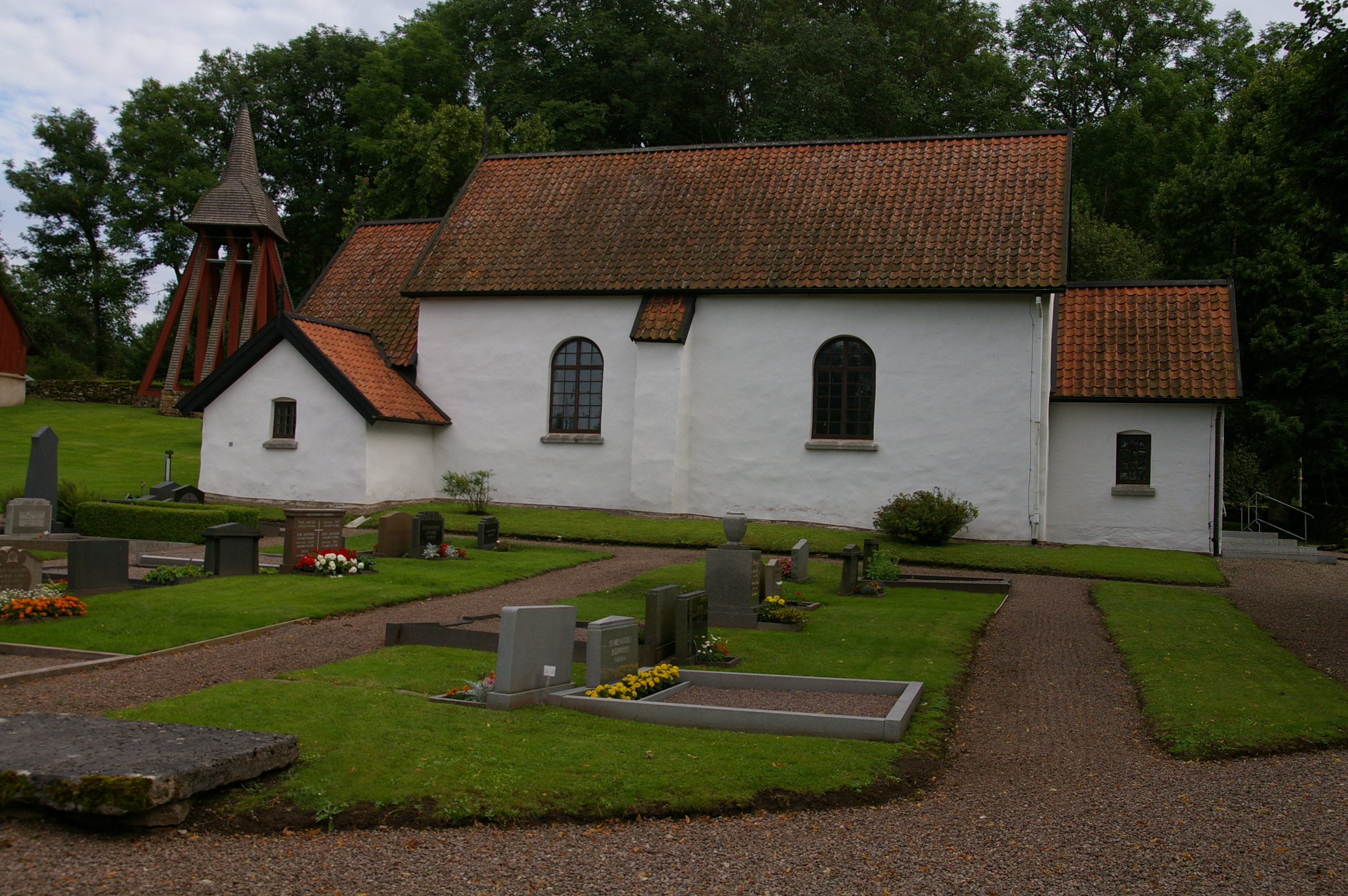 Högstena kyrka (Swedish:Church of Högstena) in Västergötland, Sweden.